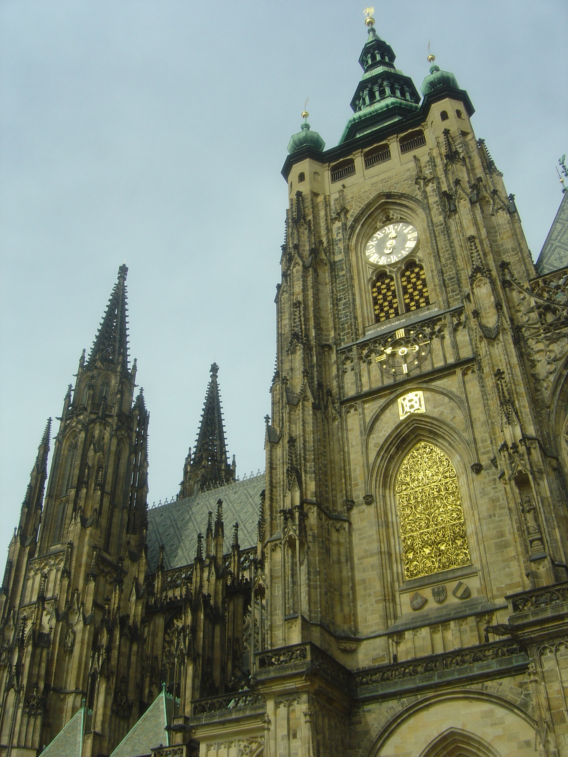 South facade of St. Vitus Cathedral in Prague